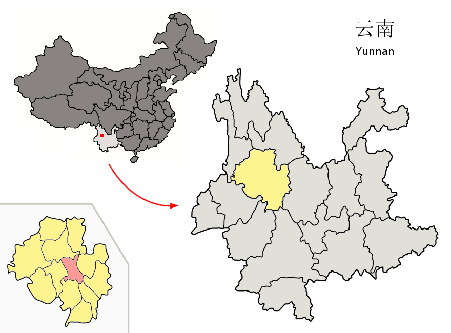 Location of Dali City (pink) and Dali Prefecture (yellow) within Yunnan province of China Map drawn in september 2007 using various sources, mainly : Yunnan province administrative regions GIS data: 1:1M, County level, 1990 Yunnan Counties map from